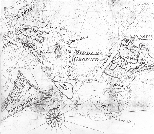 A 1795 map by Jonathon Price of Ocracoke Inlet.